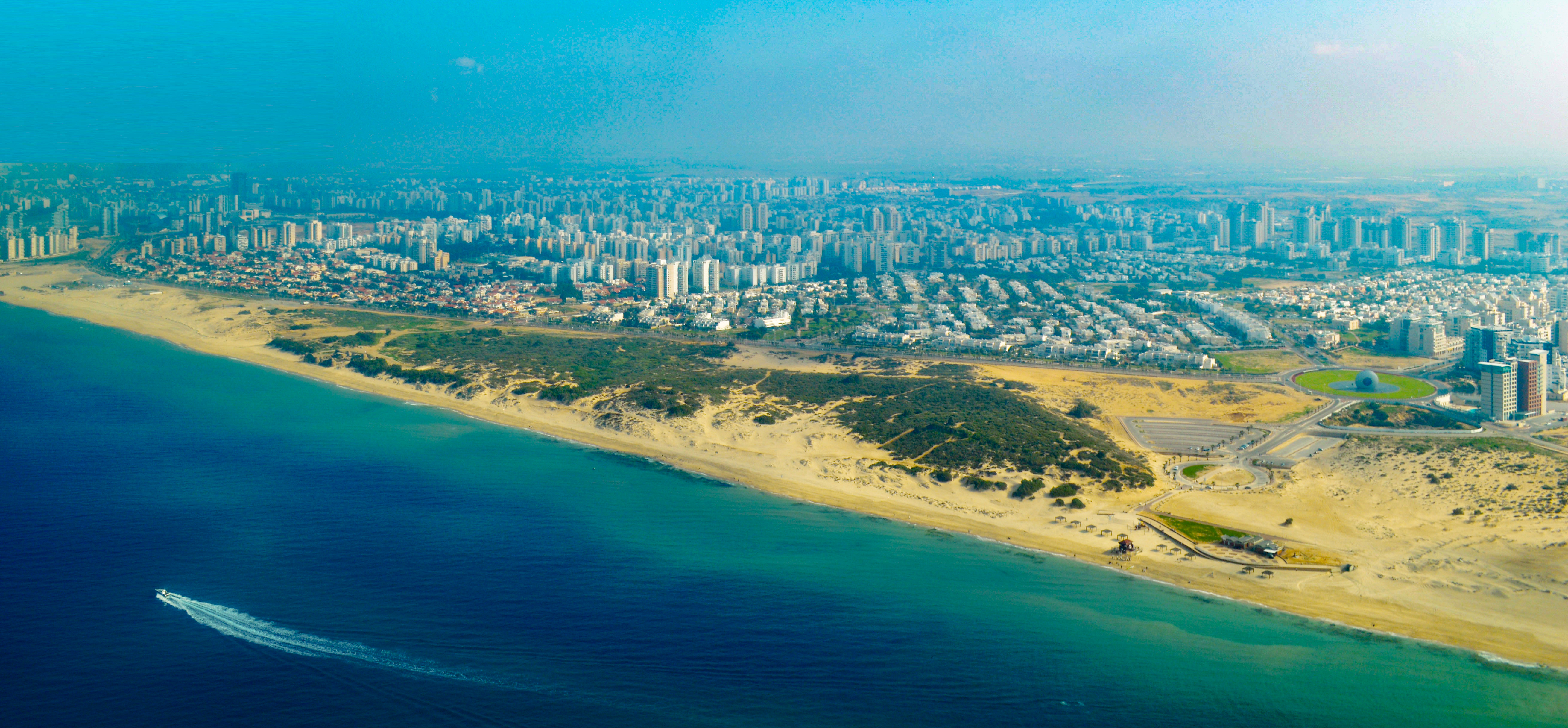 Ashdod Aerial View